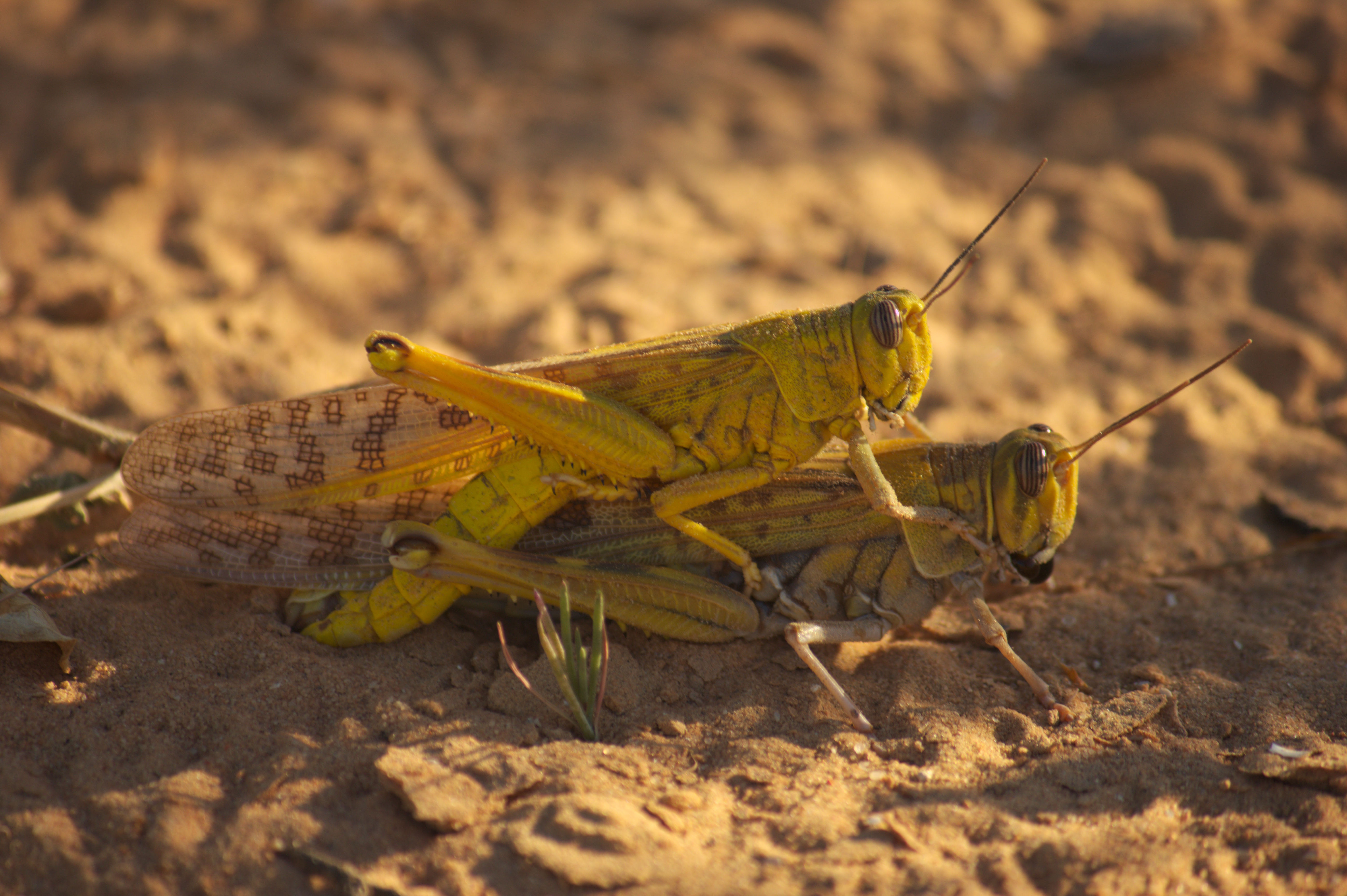 Desert Locust mating